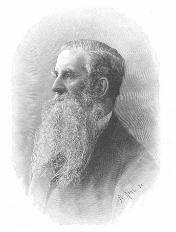 Portrait of W E Gumbleton, the horticulturalist